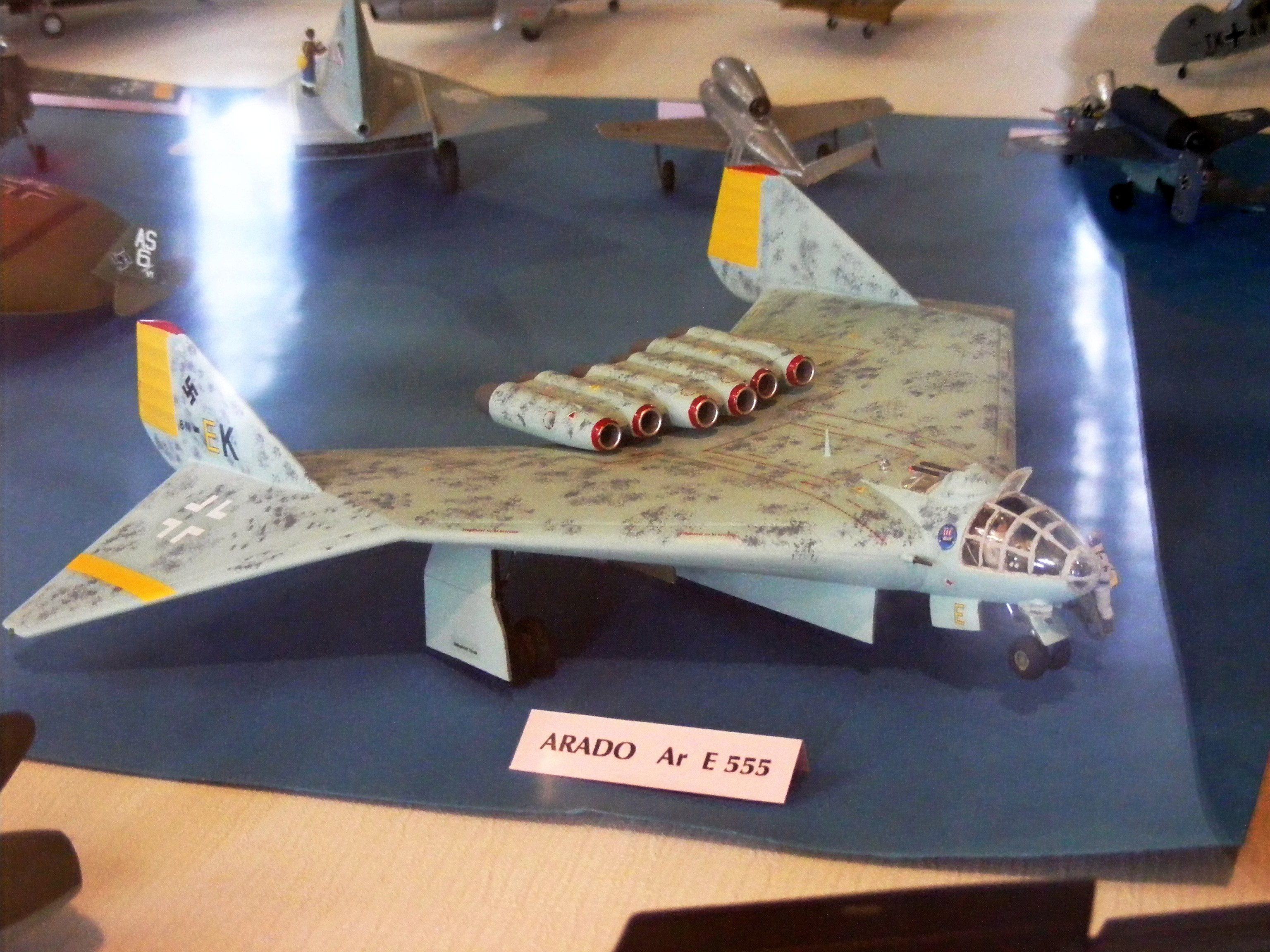 Arado E.555 model at aviaticum museum, Austria